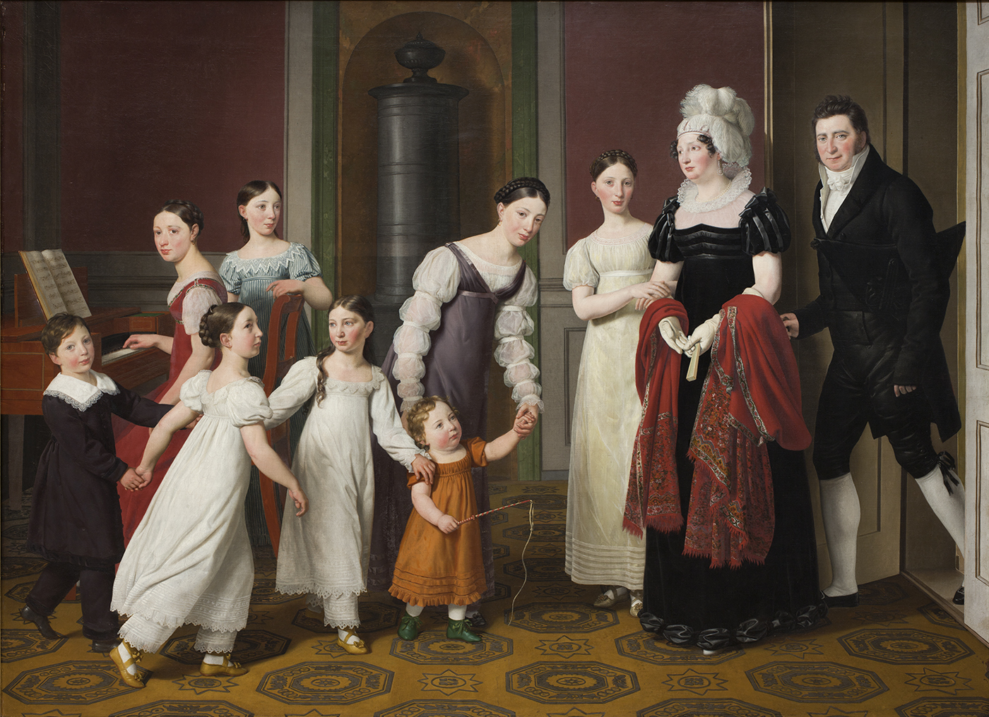 The Nathanson Family. Painting at Statens Museum for Kunst